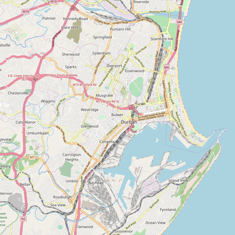 Map of Central Durban